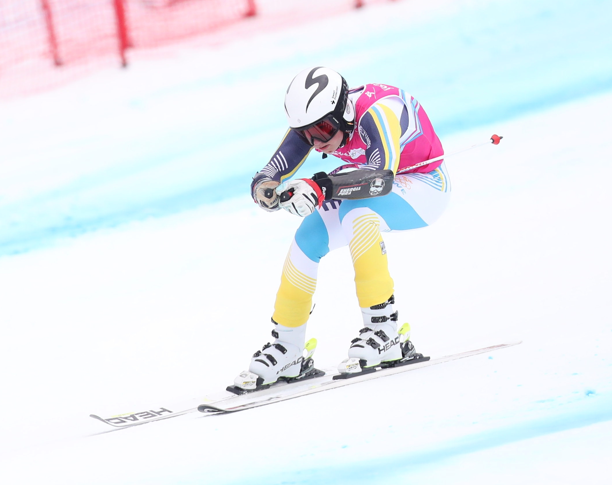 Men's Super G at the 2020 Winter Youth Olympics in Lausanne